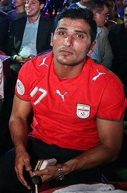 Iran Bosnia 2014 FWC match watching at Imam Reza Charity Institute